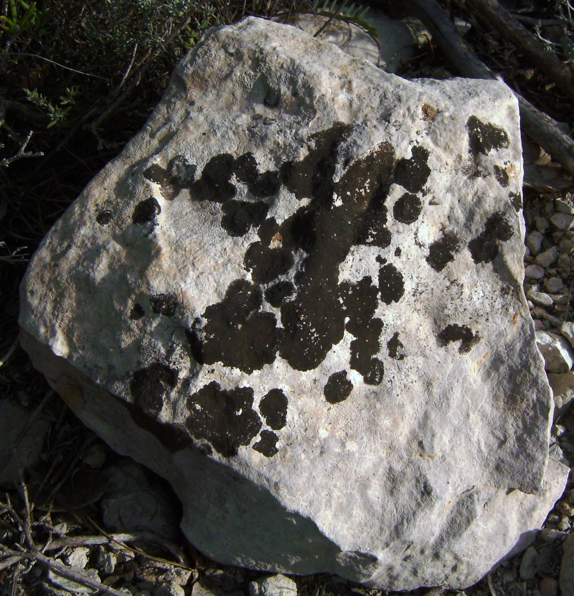 Black yeast (lichens) growing on a limestone, Castelltallat, Catalonia